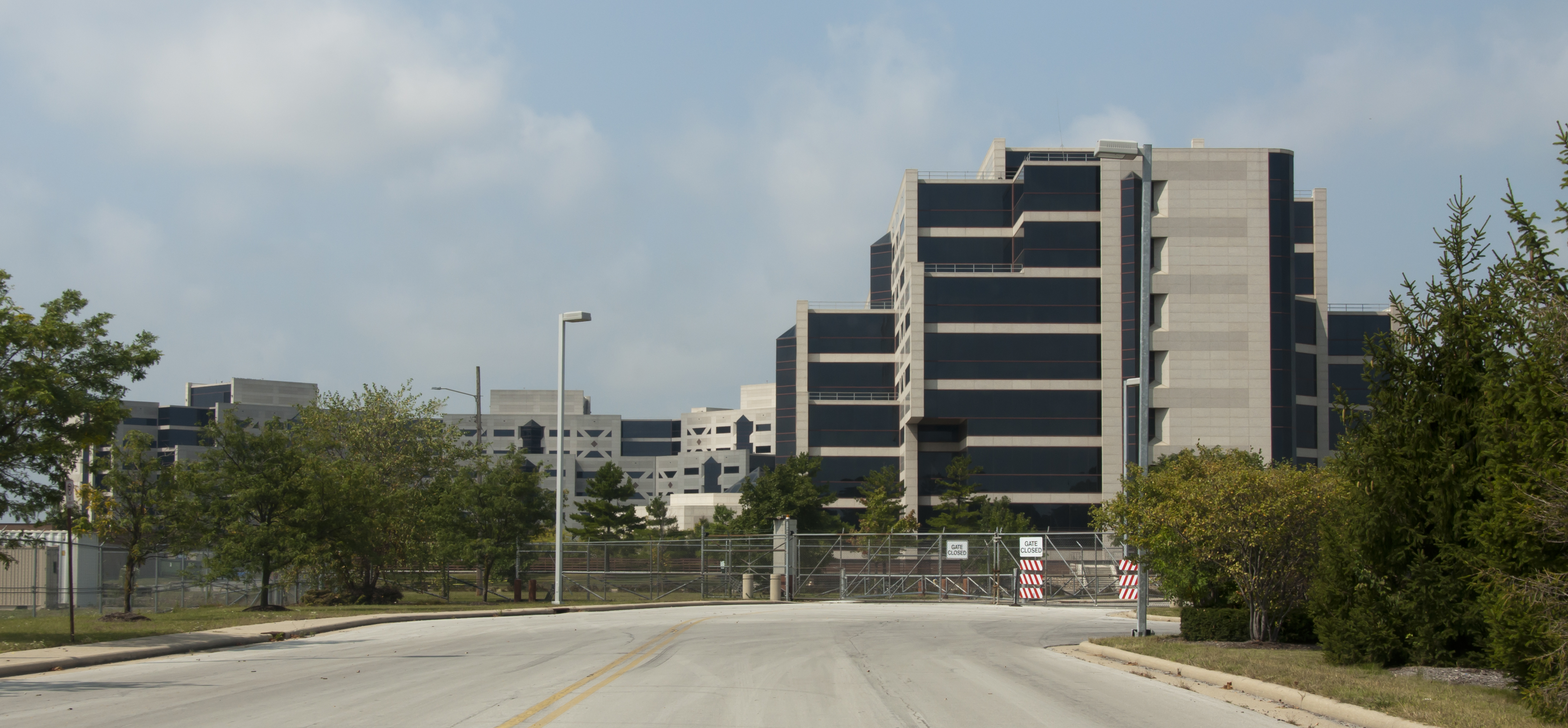 Defense Logistics Agency in Whitehall, Ohio viewed from the East. Past of the Defense Supply Center Columbus. Not easy to shoot having done this on a national holiday with limited people around.